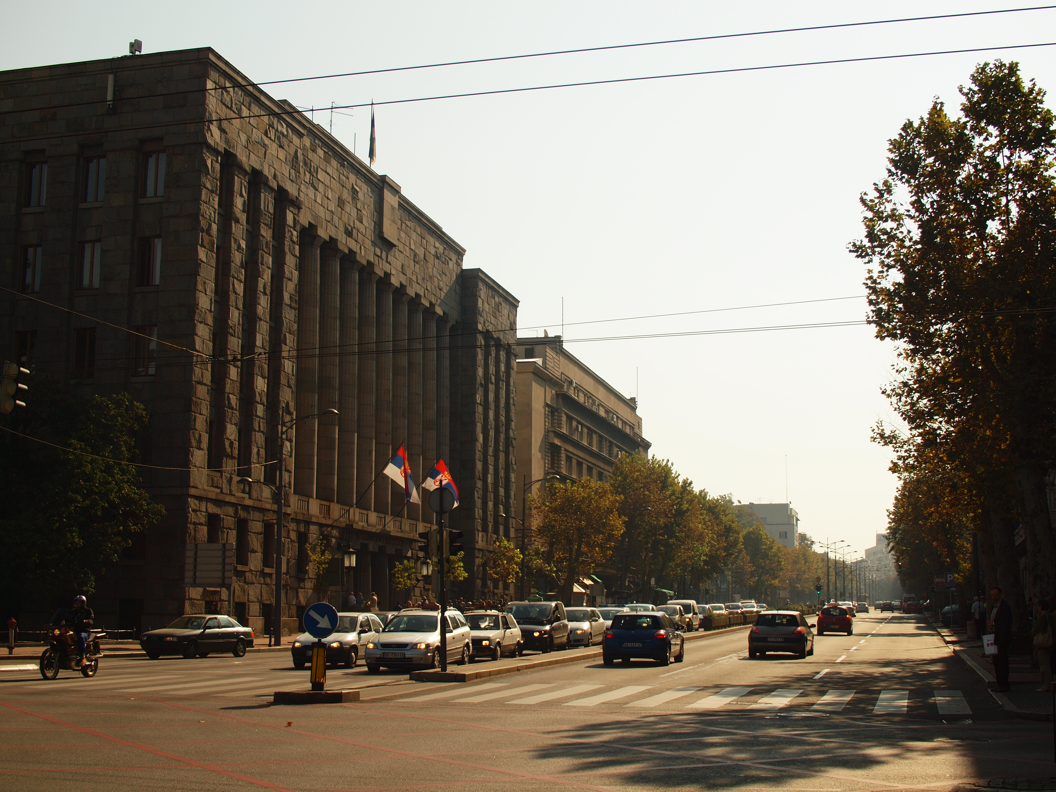 bulevar belgrade